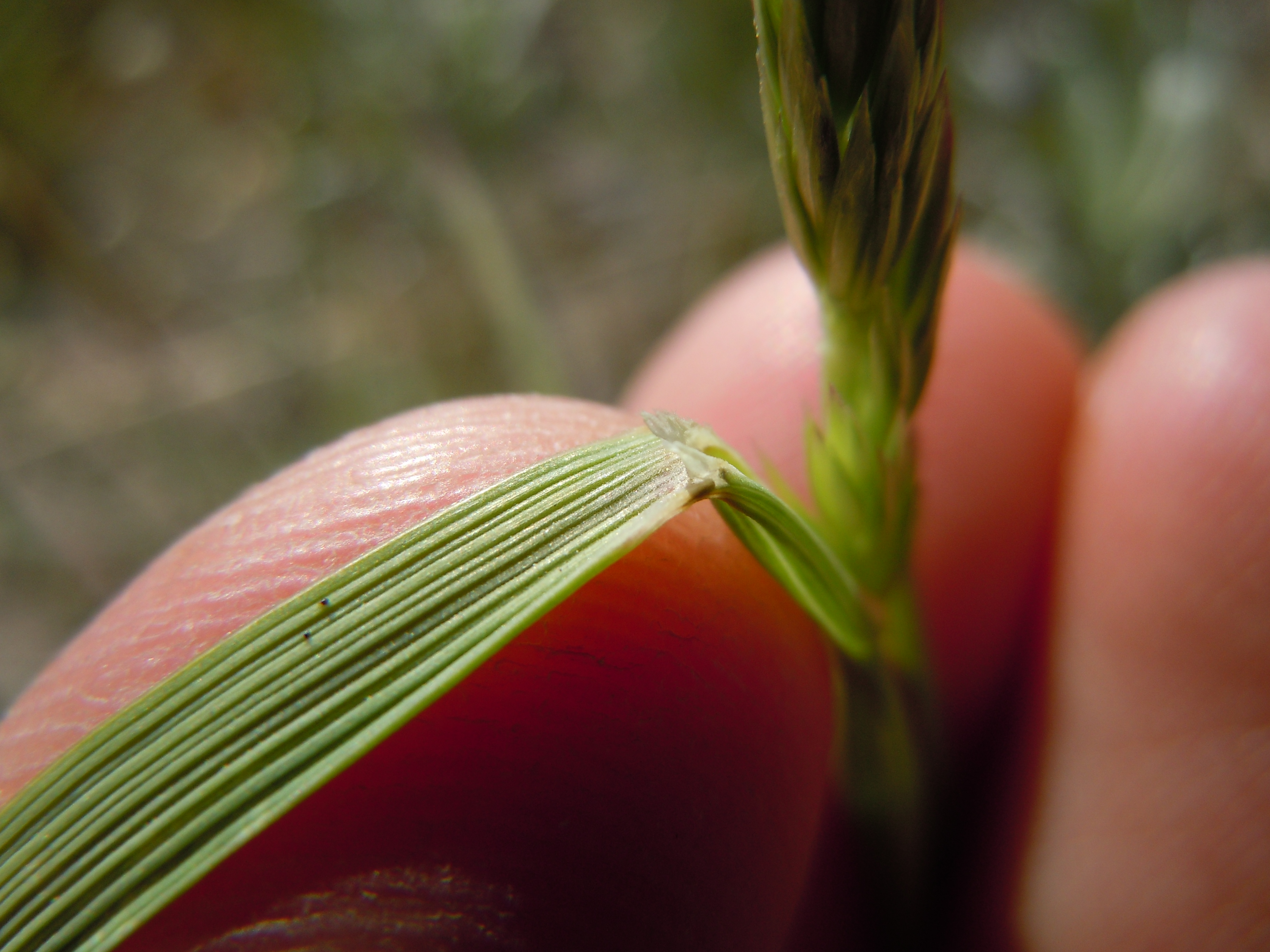 The strongly ribbed upper surface to the leaf blade and short ligule are distinctive of this dry-site inhabiting bunchgrass.